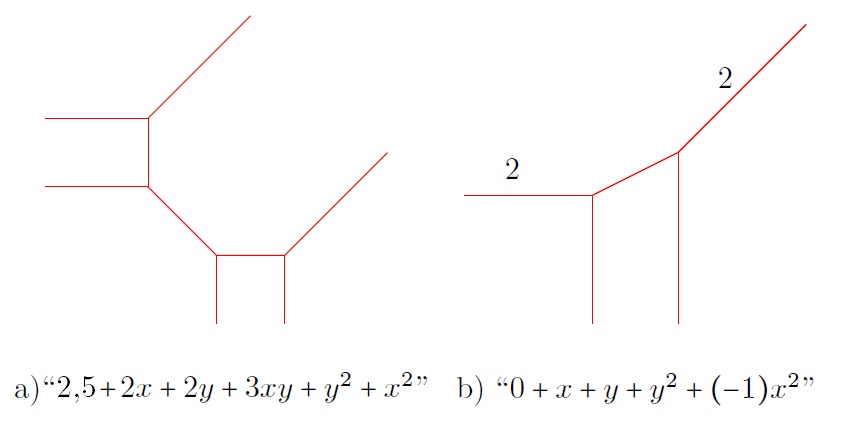 Certain tropical curves of the second order. The polynomials are given in the max convention. Numbers near edges denote their weights when they are not evident from the slope.